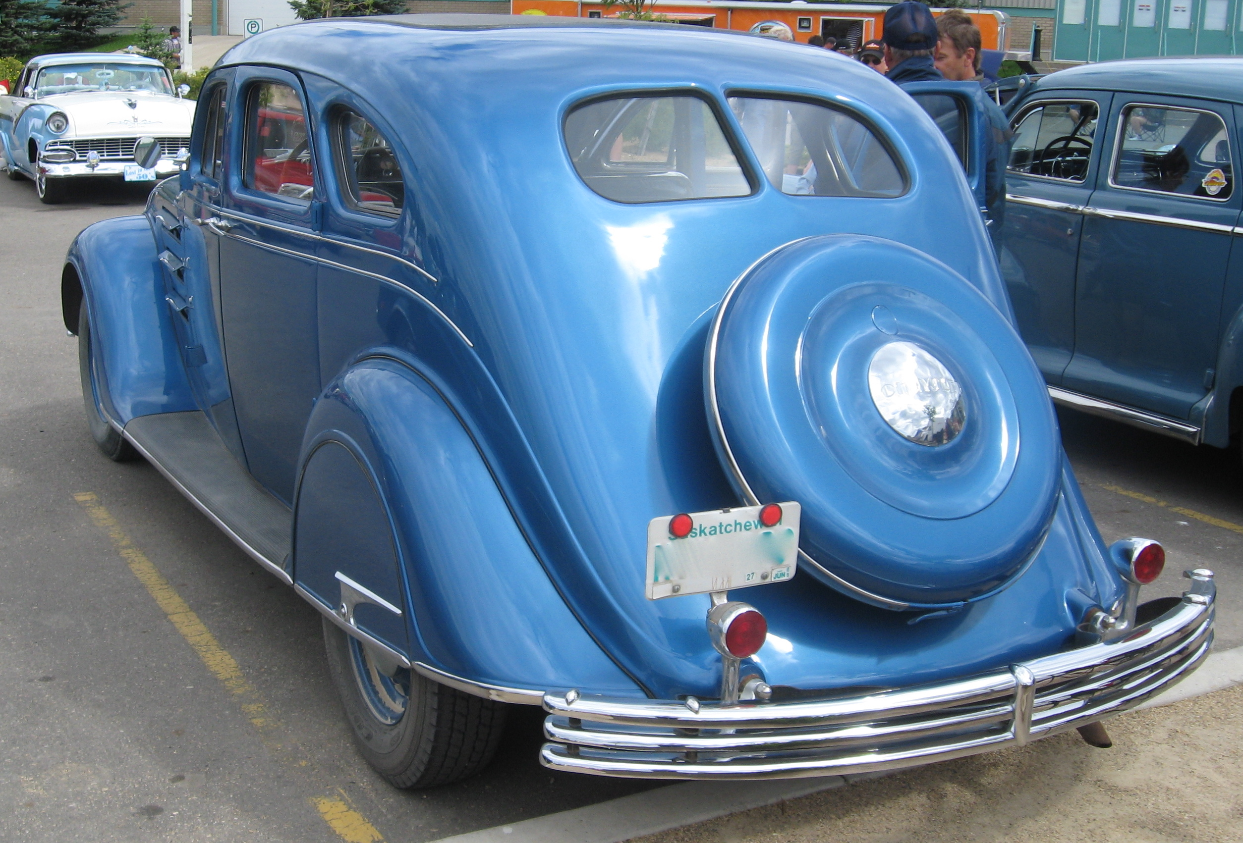 custom car, shot at local car show/swap meet